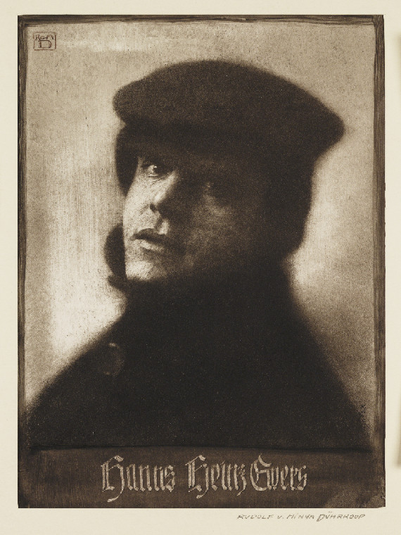 German author Hanns Heinz Ewers (1871-1943) – bromoil print photograph